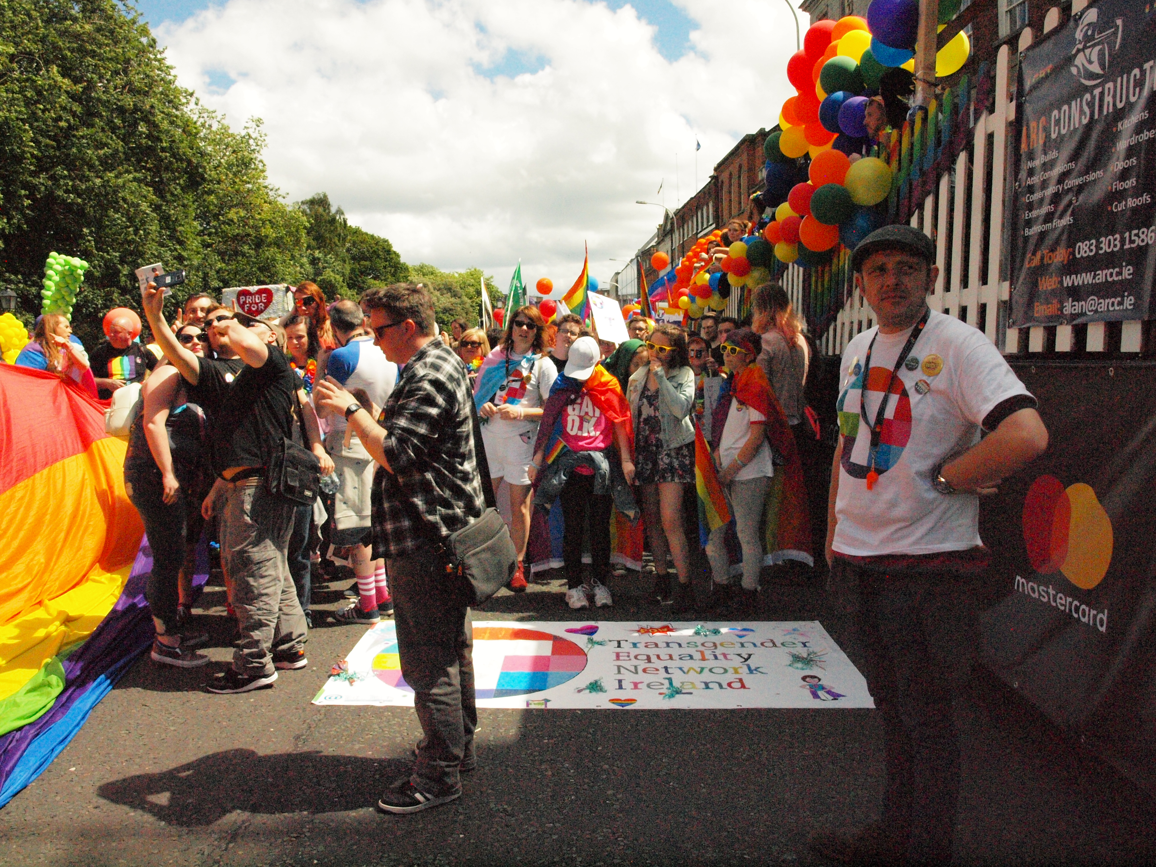 Pictures from the Dublin LGBTQ Pride Parade 2017 from St Stephen's Green to Smithfield